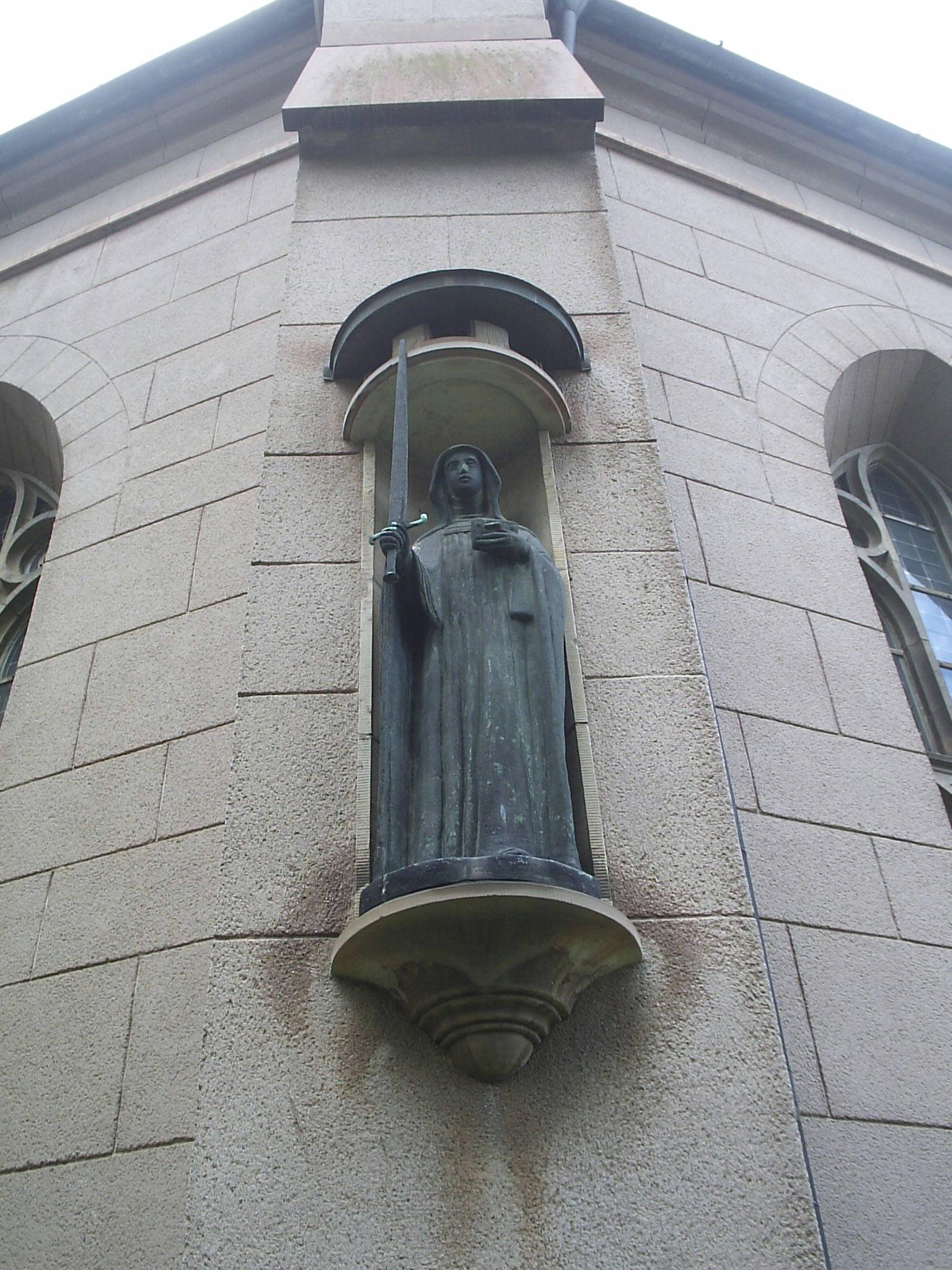 Saint Helena of Skövde. Photo by Harri Blomberg.